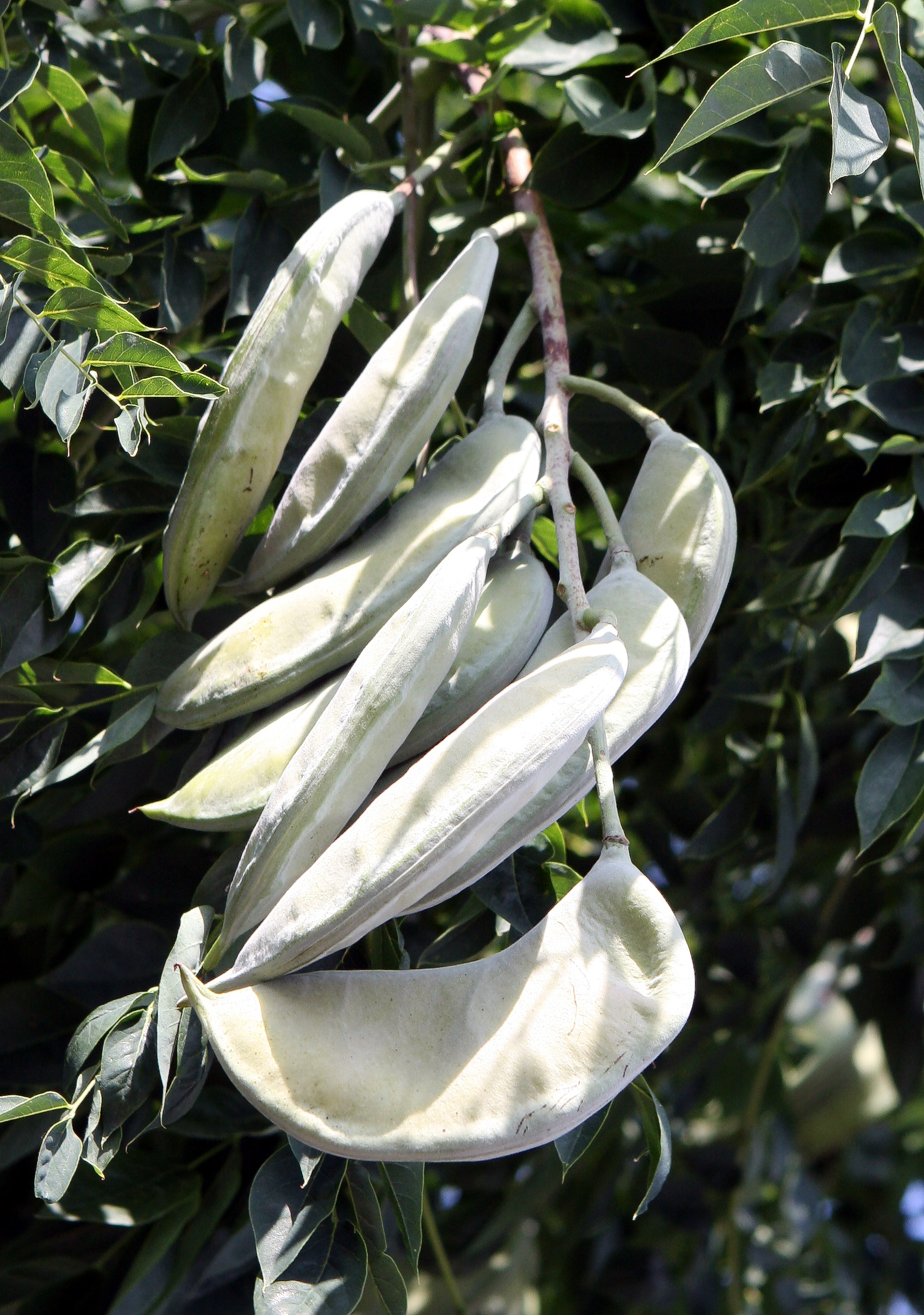 Gymnocladus dioicus fruits, self made image taken in mid August.